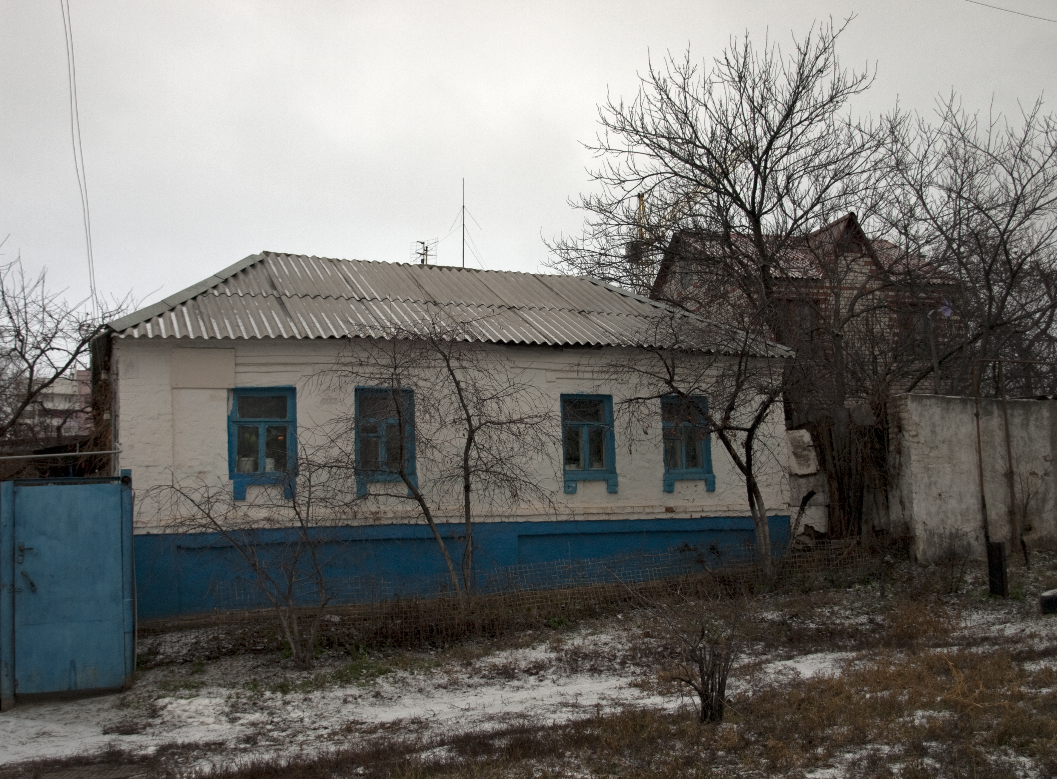 Pushkina Street 23, Belgorod